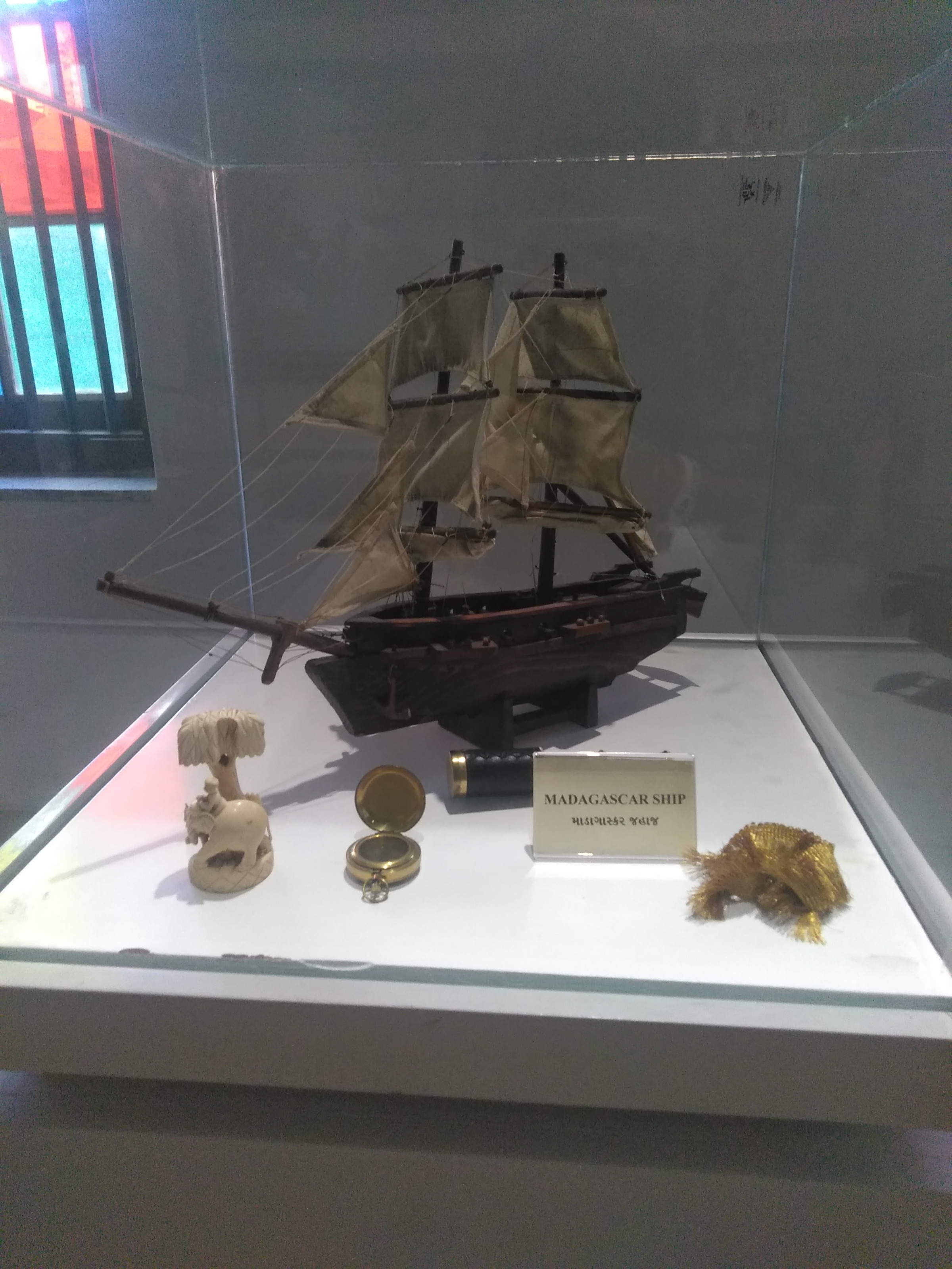 This photo was captured at Surat castle (fort). The scale down